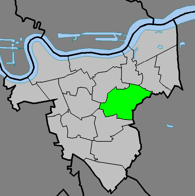 Shooter's Hill ward (green) within the London Borough of Greenwich (light grey). 10/07/2009 - en: File:Shooter's Hill location.PNG c: File:Shooter's Hill location.PNG.